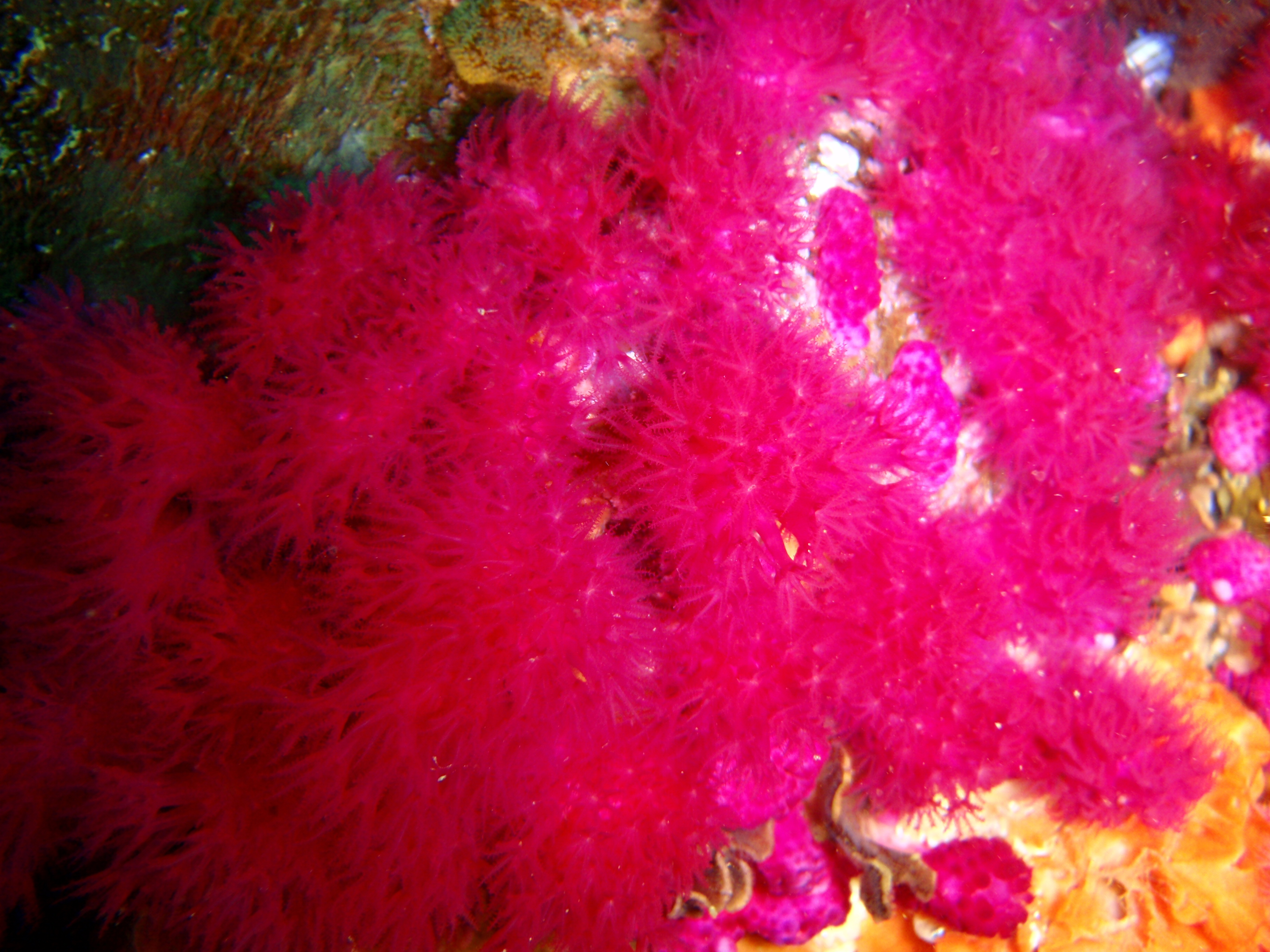 Purple soft coral at Partridge Point in the Castle Rocks Marine Reserve